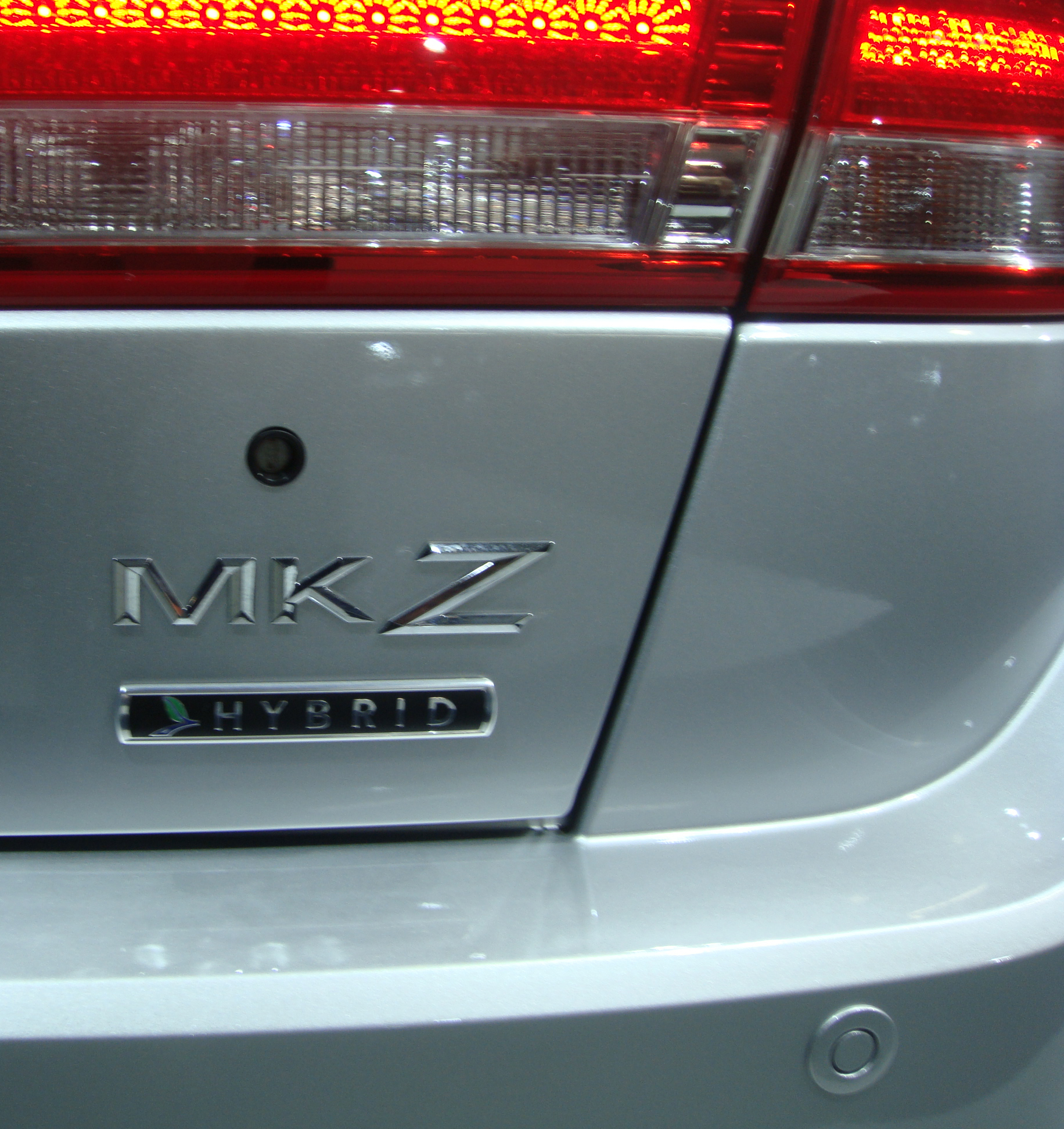 Detail of Lincoln MKZ Hybrid road leaf logo badging (taken at 2011 Washington D.C. Auto Show)